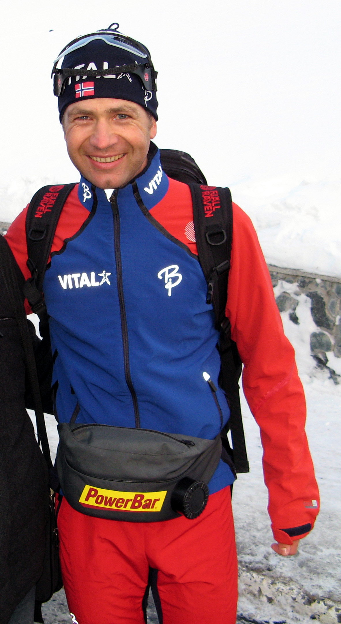 Norwegian biathlete Ole Einar Bjørndalen